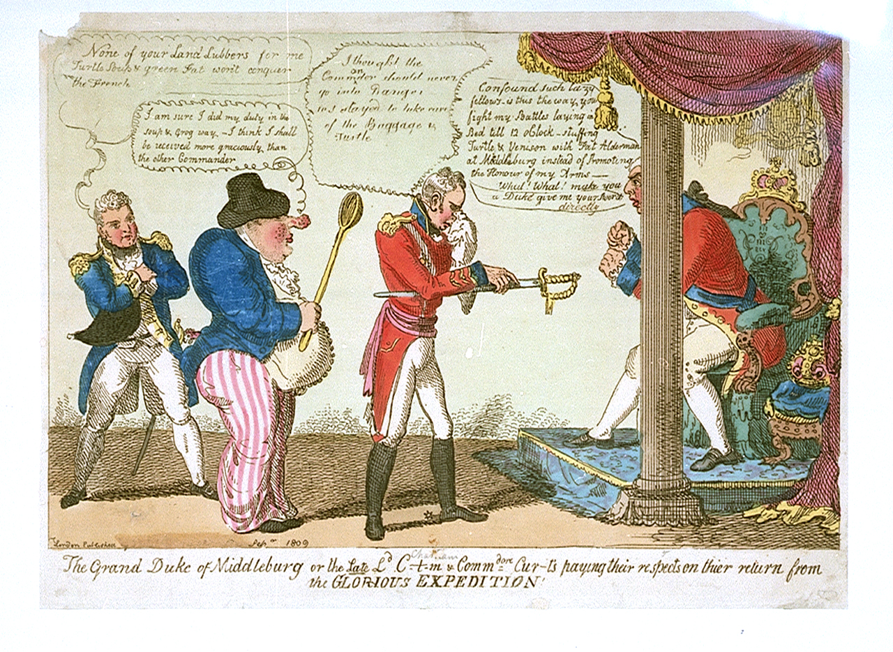 The Grand Duke of Middleburg or the Late Ld C-t-m & Commodore Cur-ts paying their respects on their return from the Glorious Expedition (caricature) Explanation: British Museum Hand-coloured.